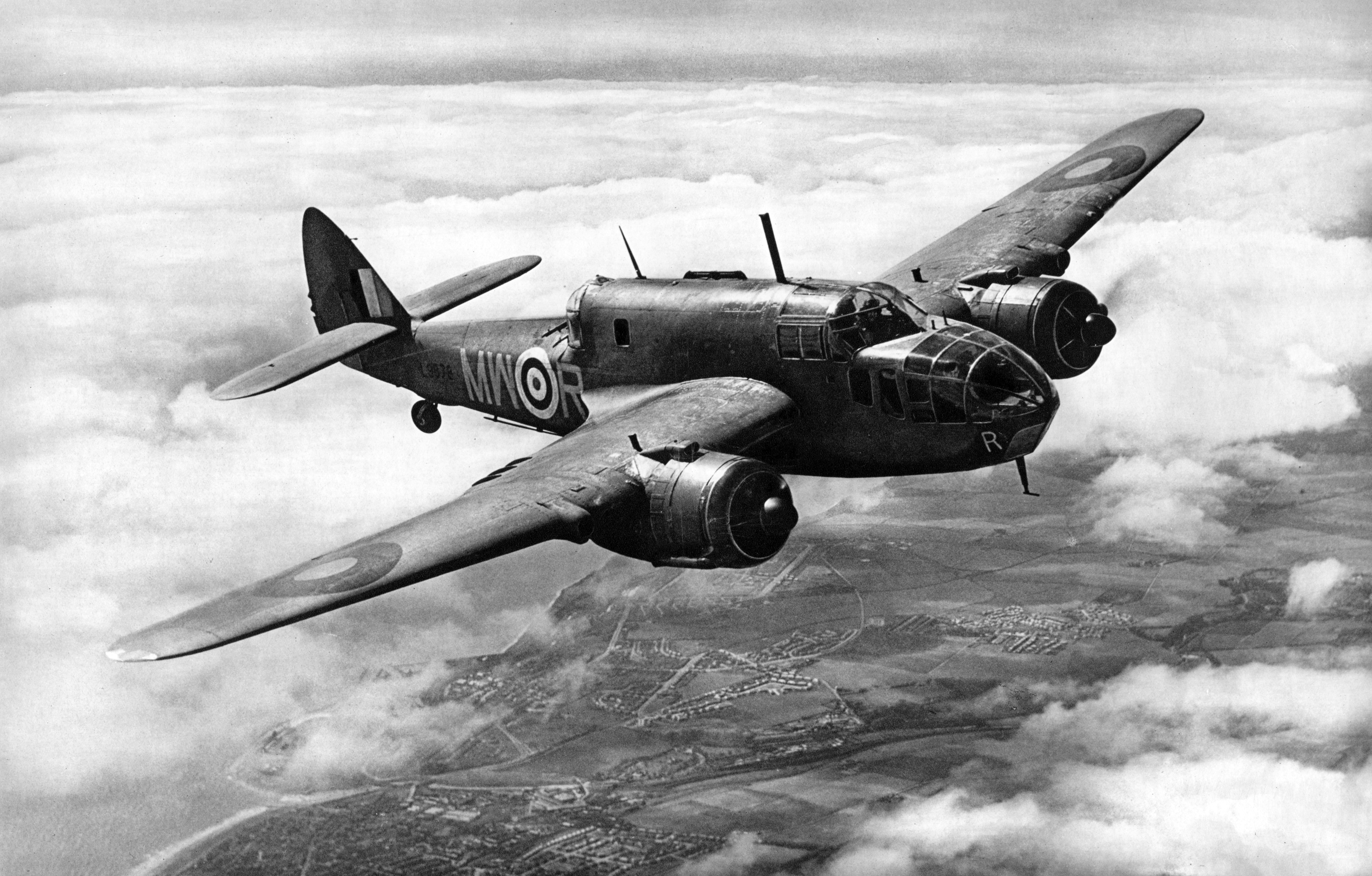 Bristol Beaufort